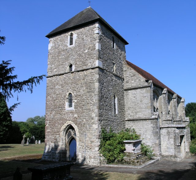 Nettlestead Church. St Mary The Virgin, Nettlestead has two congregations as the building is in use by both the Anglican and Catholic congregations. The church has renowned 15th century stained glass windows.